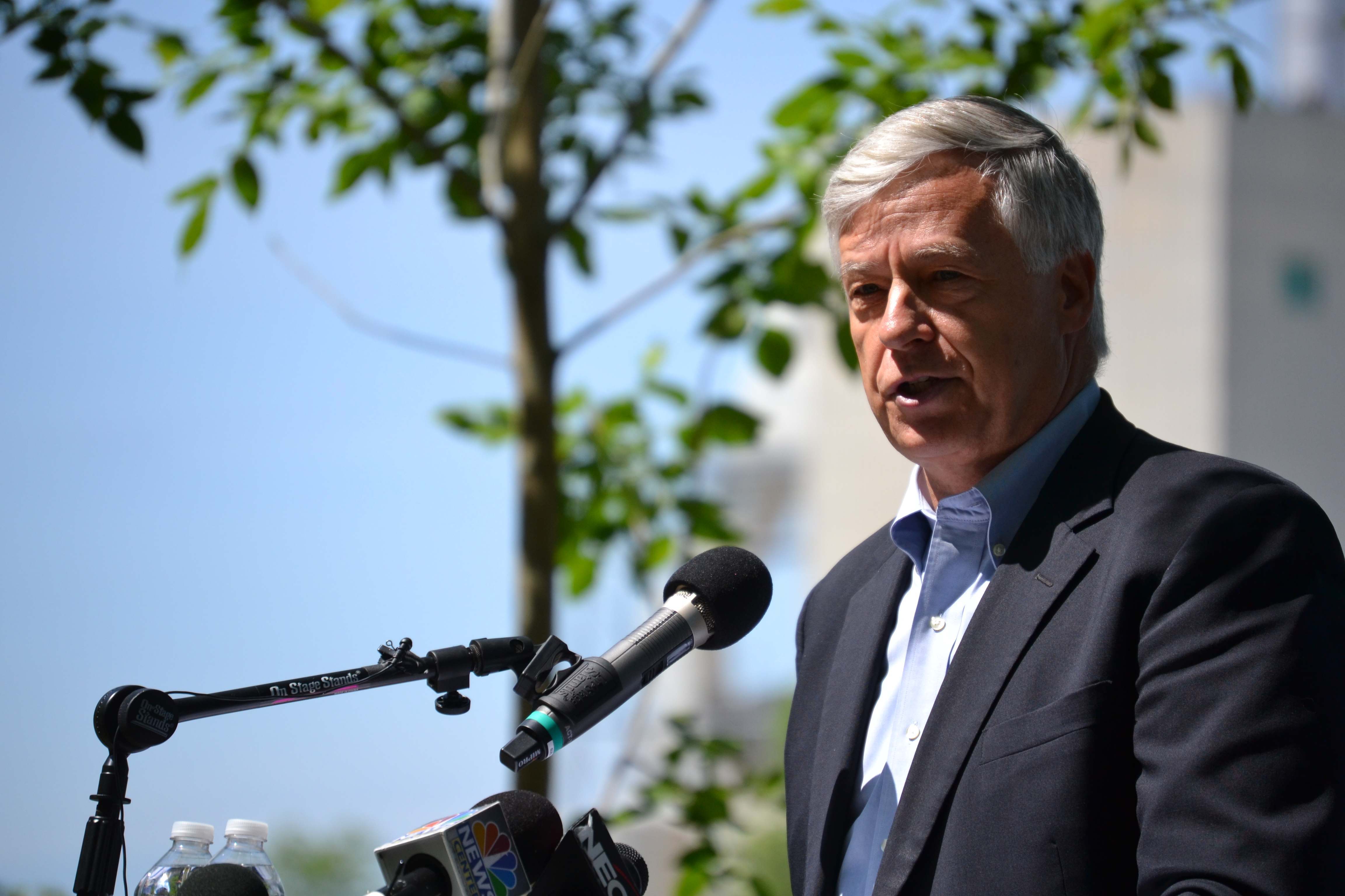 2012 Penobscot River Restoration Project : Great Works Dam Removal Event